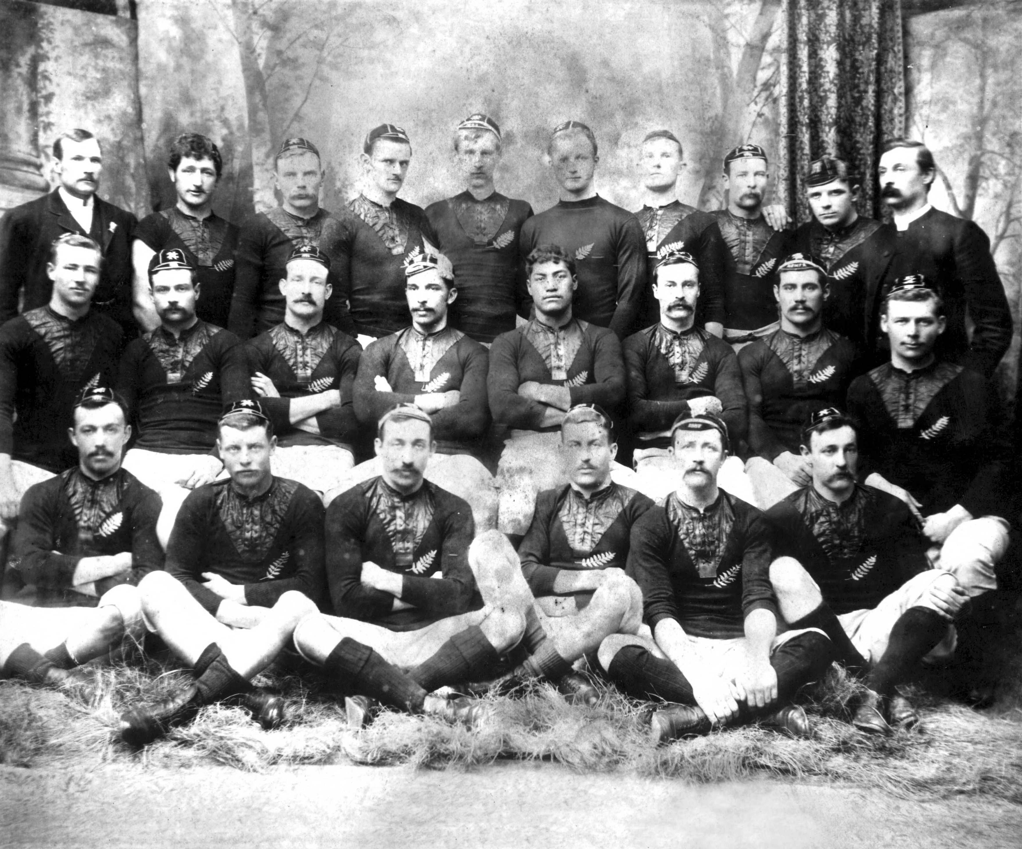 The New Zealand rugby team that toured on Australia. Players are - Back: G. Campbell (manager), S. Cockroft, J. Lambie, A. DArcy, W. McKenzie, C. McIntosh, C. Speight, A. Good, F. Murray, Rev. J. Hoatson (referee). Middle: F. Jervis, W. Pringle, A. Bayly, T. Ellison (captain), H. Tiopira, J. Mowlem, D. Gage, G. Shannon. Front: H. Wilson, J. Gardner, W. Wynyard, M. Herrold, A. Stuart, G. Harper.